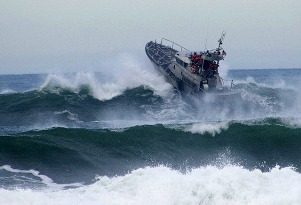 A motor lifeboat braving heavy waves off Tillamook Bay, Oregon. Original caption: “Coast Guard Station Tillamook Bay is located approximately two miles from the entrance of Tillamook Bay, in Garibaldi, Ore. and is one of only twenty Surf Stations in the U.S. Coast Guard. U.S. Coast Guard photo.”